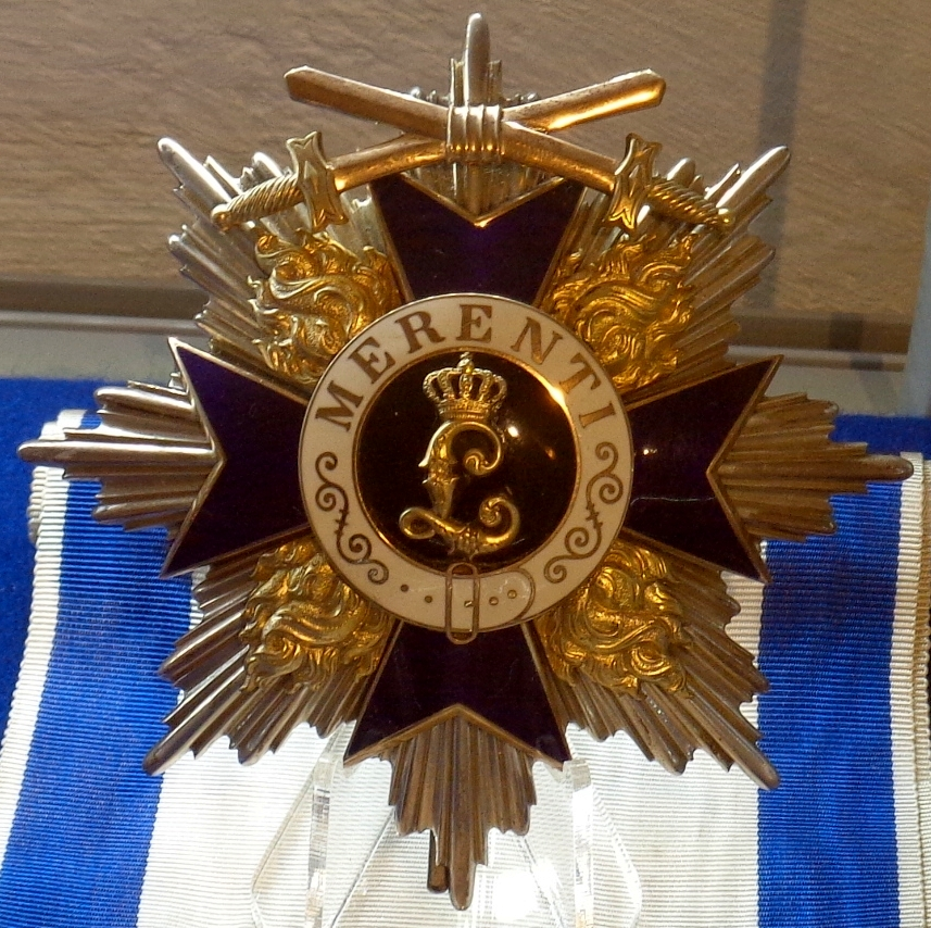 Military Merit Order, star of Grand Cross with swords. Kingdom of Bavaria. The exhibition of the Tallinn Museum of Orders of Knighthood, Estonia.